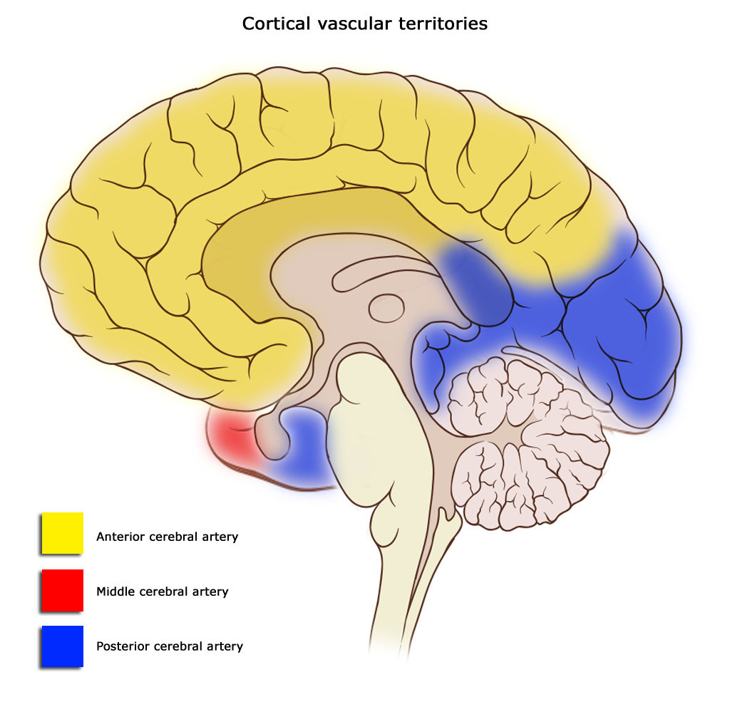 Brain human sagittal section